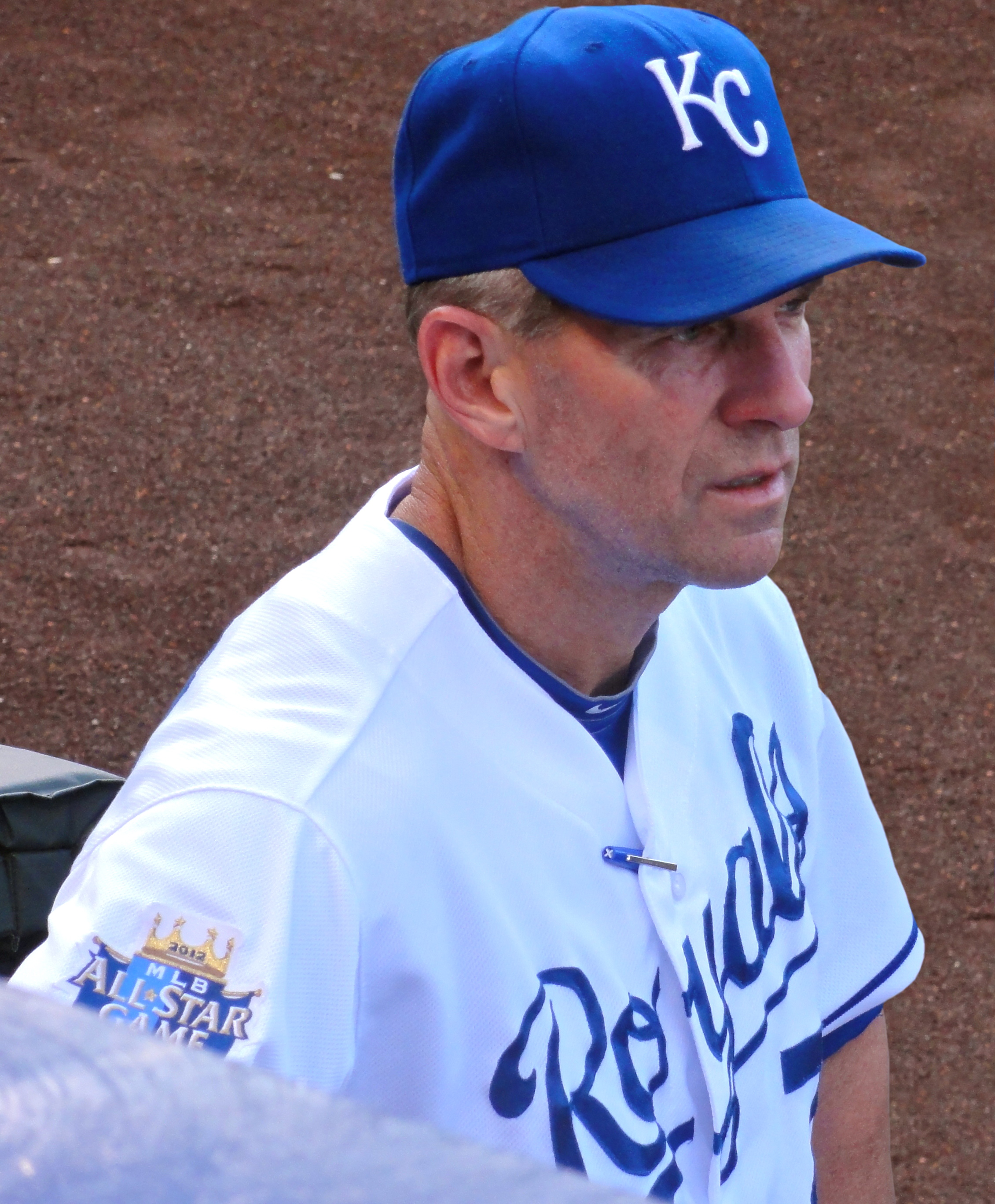 Kansas City Royals first base coach Doug Sisson at Kauffman Stadium, 2012.]